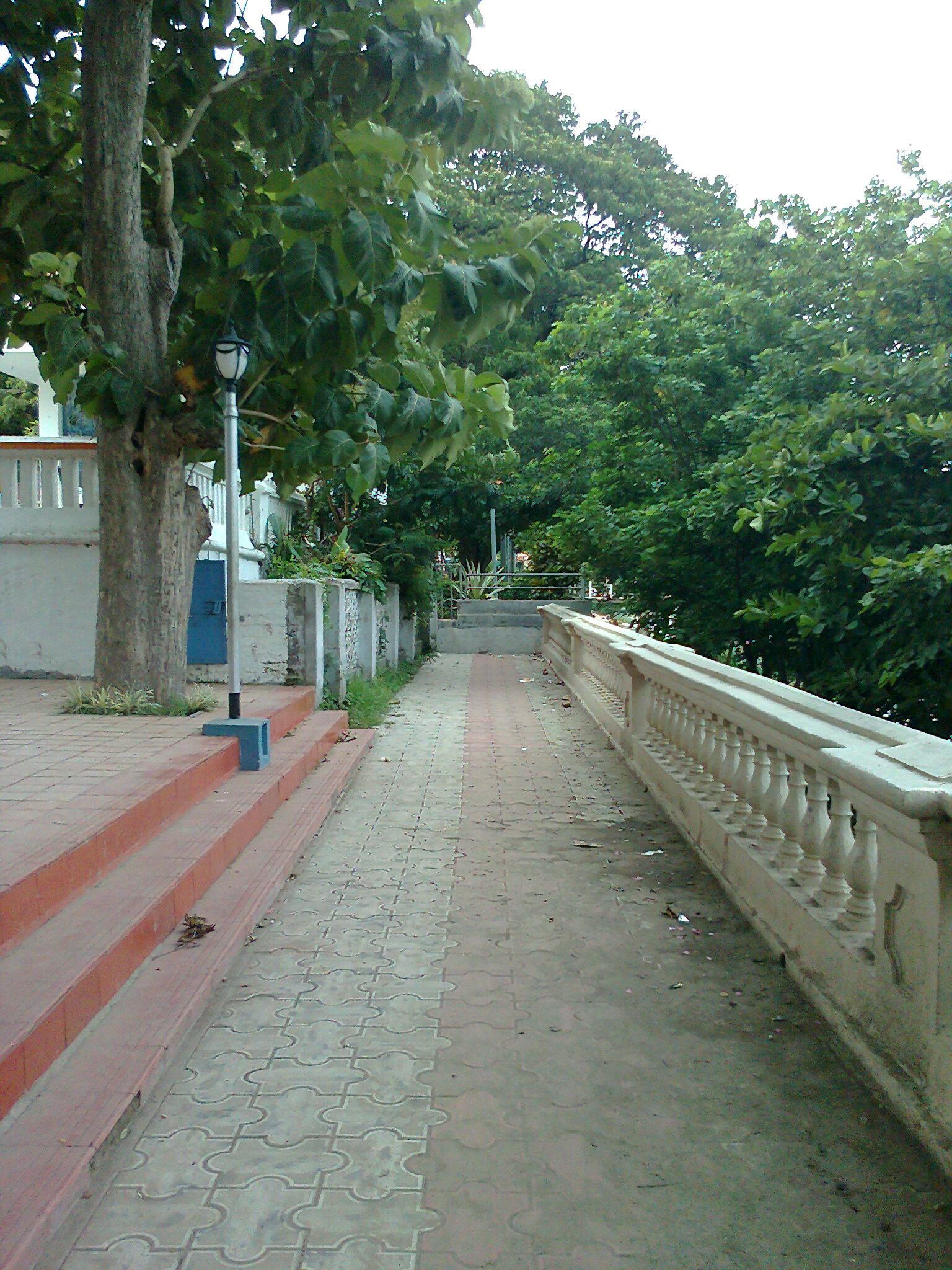 Chandannagar